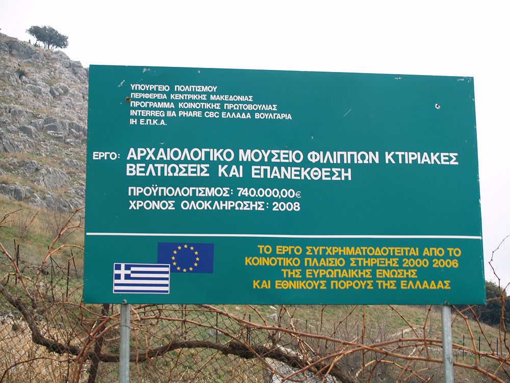 Explanation Board on the financing of Philippi Archeological Museum, Greece